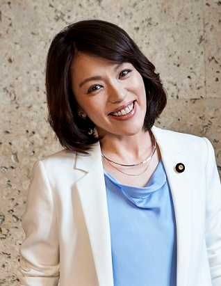 Imai Eriko was inaugurated as Parliamentary Vice-Minister of Cabinet Office on September, 2019